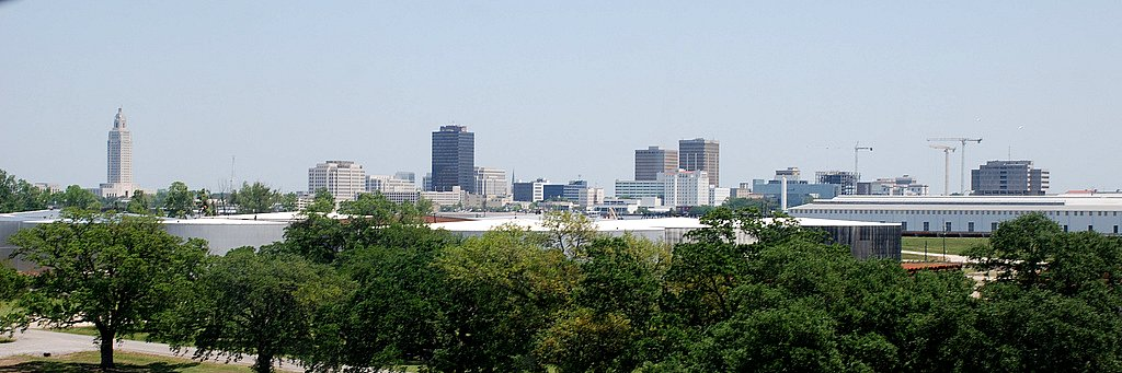 Skyline of Baton Rouge, LA